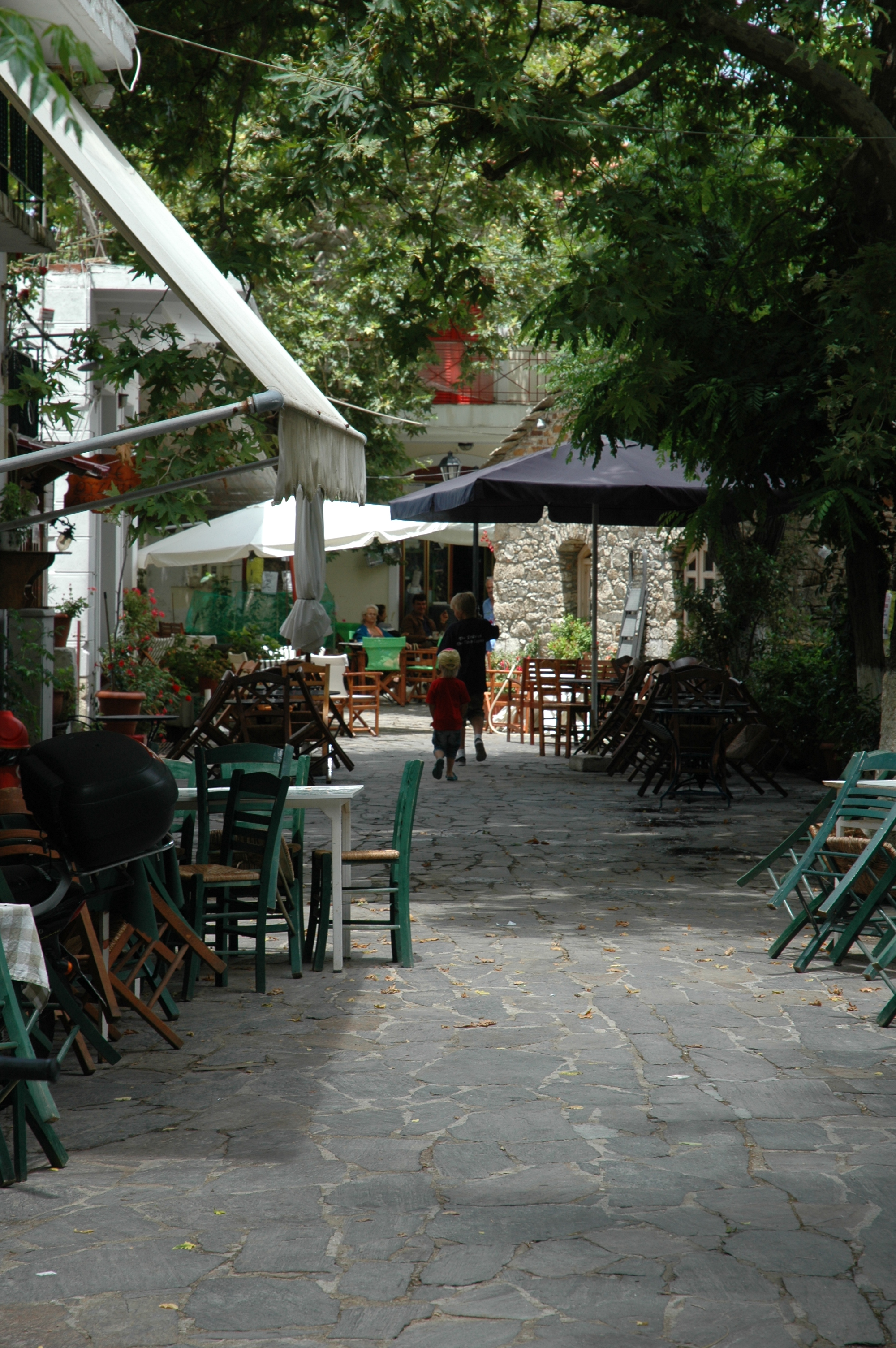 Christos Rachos on Ikaria